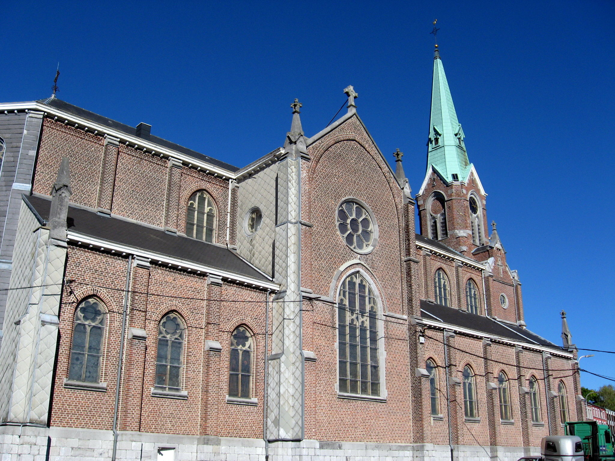 Church of Saint Martin in Petit-Rechain, Verviers, Liège, Belgium